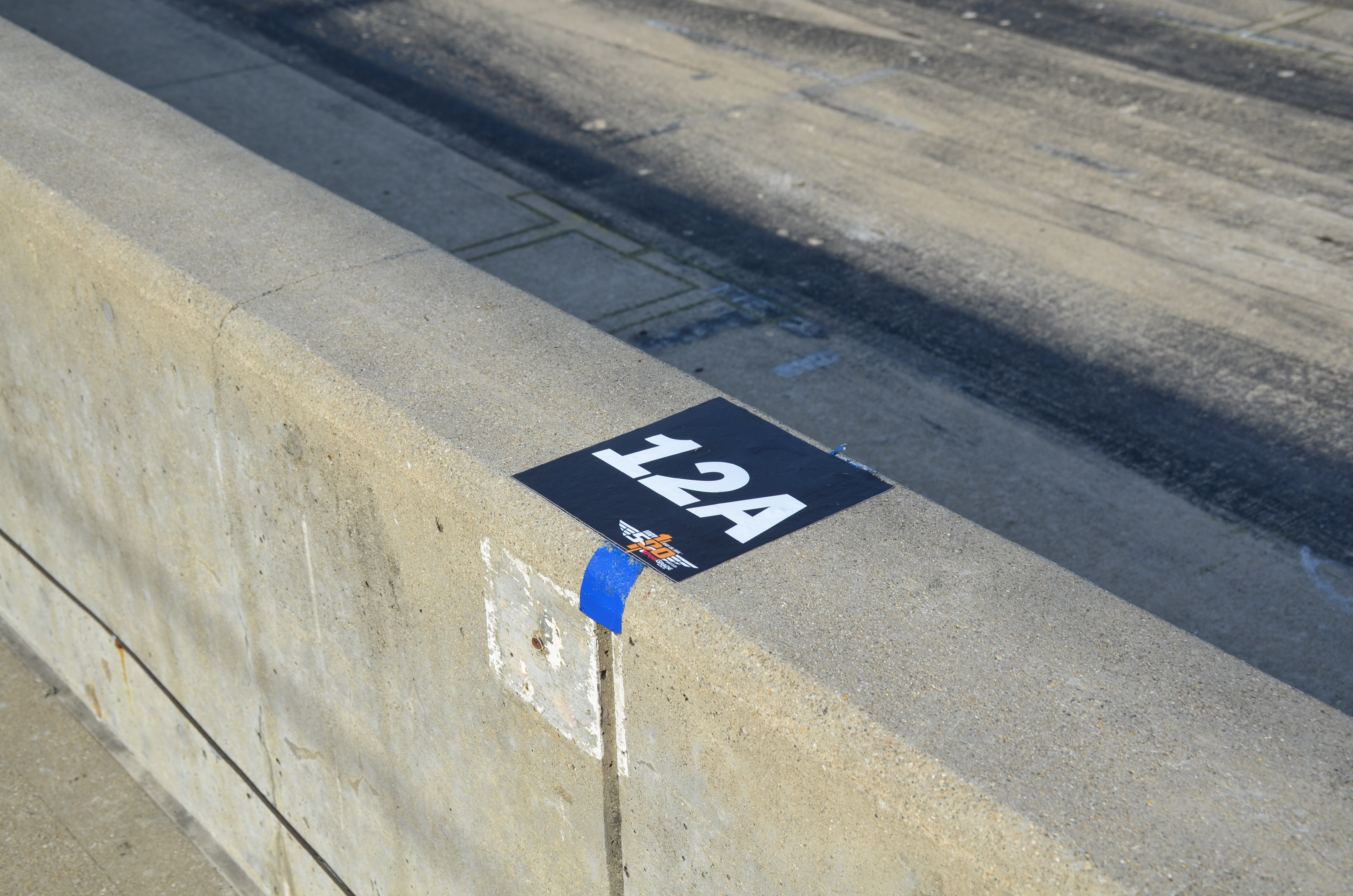 Pit stall "12A" at the Indianapolis Motor Speedway.